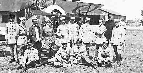 D'Annunzio with the pilots of the Escadrille de protection de Venise. To his right the French Consul